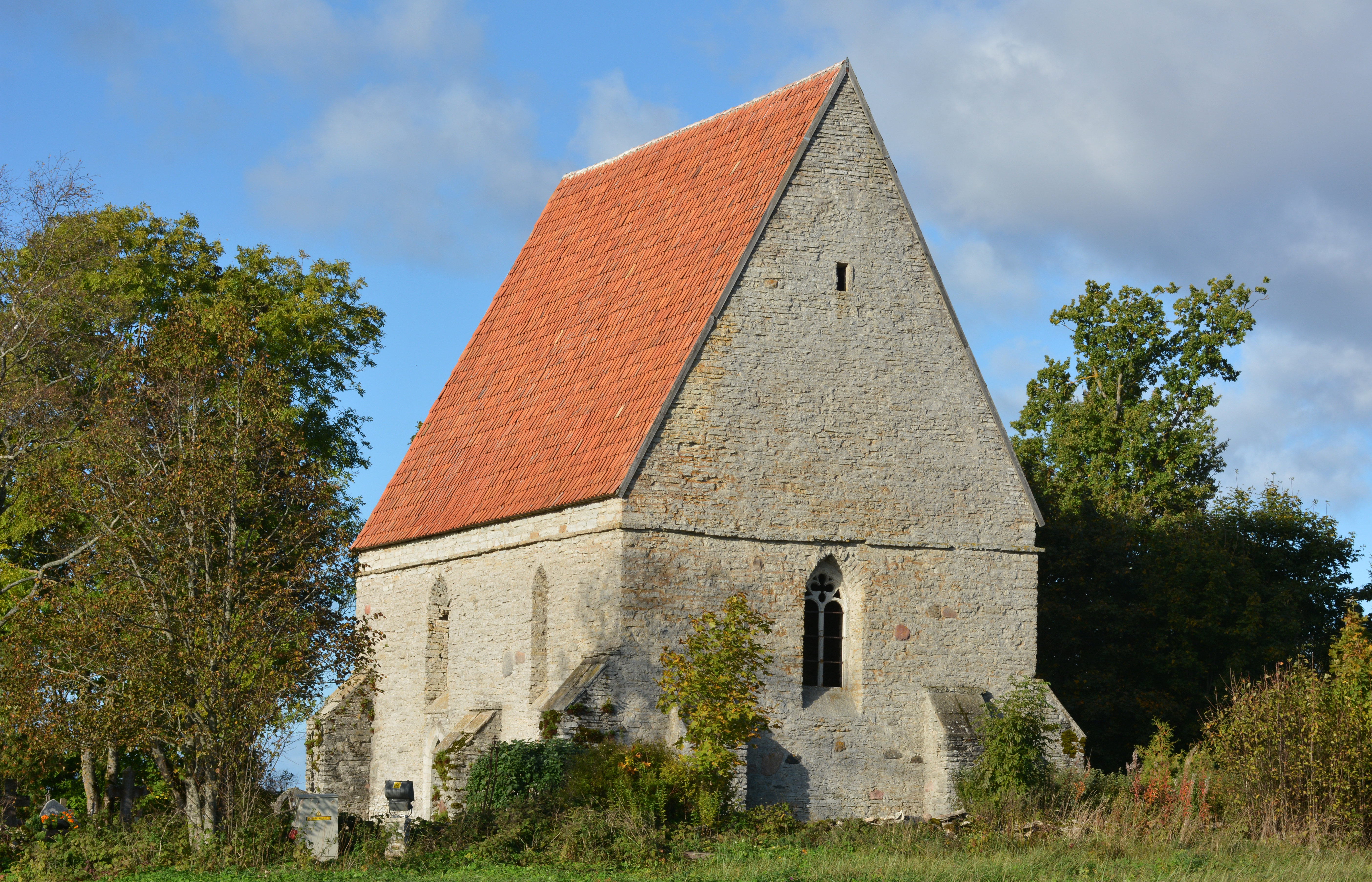 Saha chapel in Jõelähtme Parish, Harju County, Estonia. Oldest intact stone chapel in Estonia.